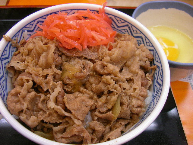 Gyudon at the Yoshinoya.